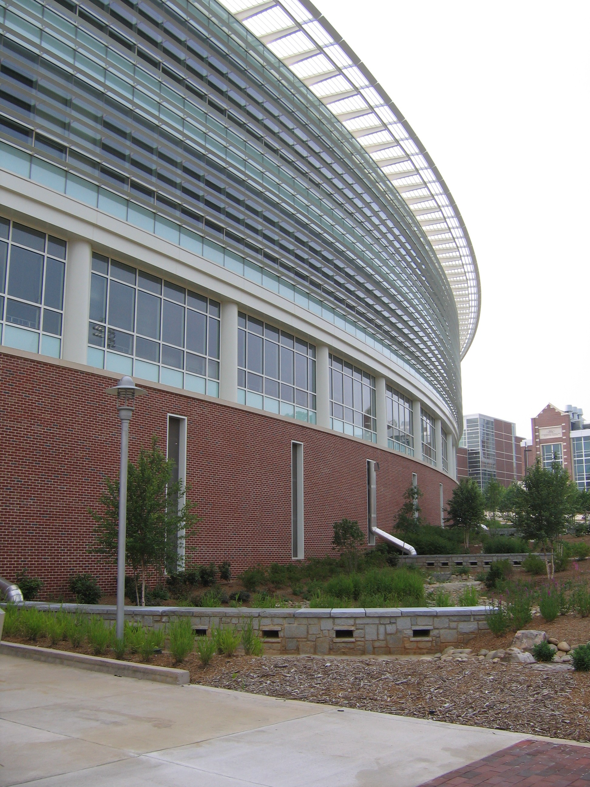 Description: The Georgia Institute of Technology College of Computing's Klaus Advanced Computing Building Source: I, User:Disavian, took this picture on 2007-05-27